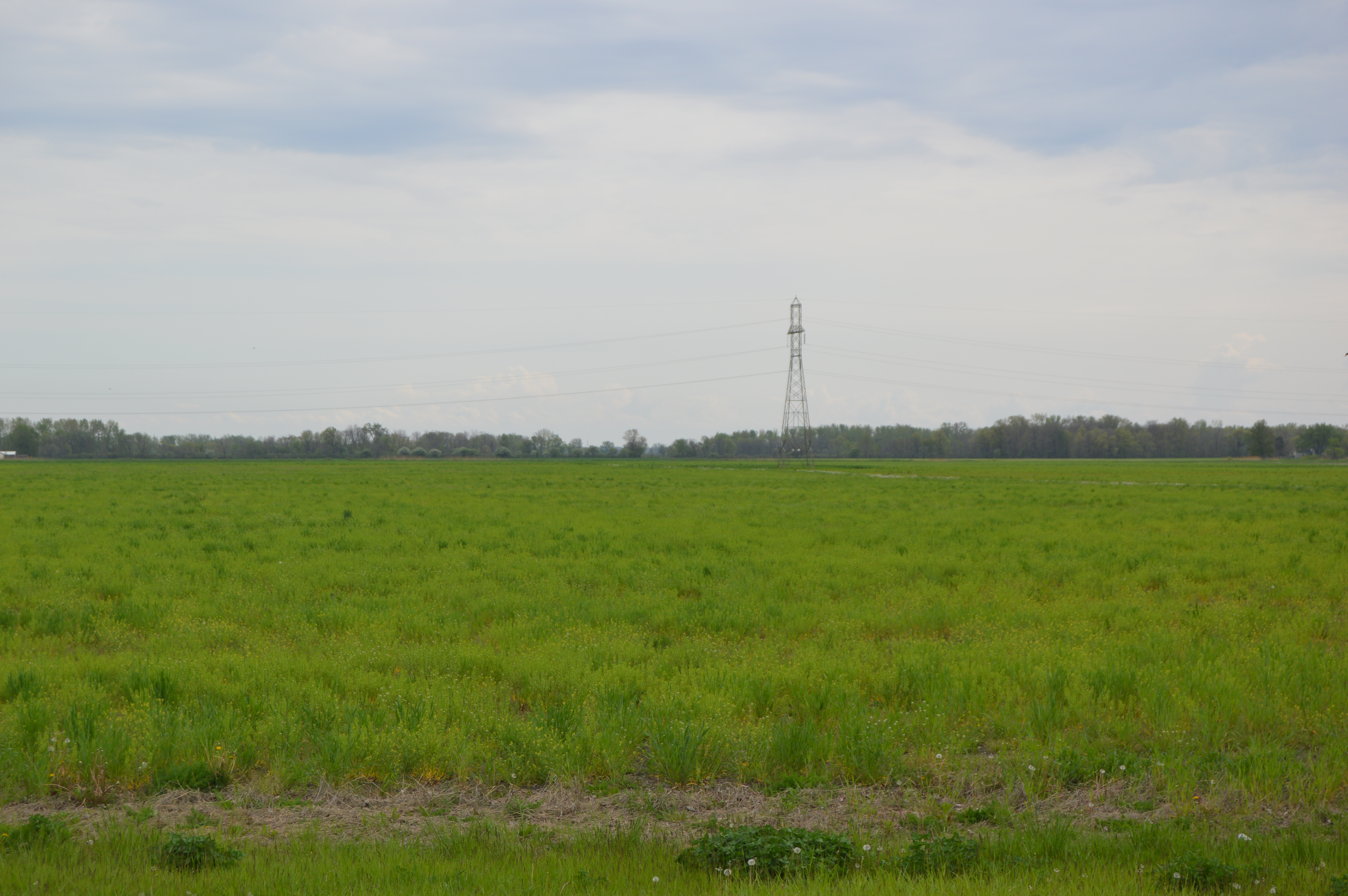 Fields on the southern side of Wilcox Road just southeast of the State Route 53 intersection in Bay Township, Ottawa County, Ohio, United States.